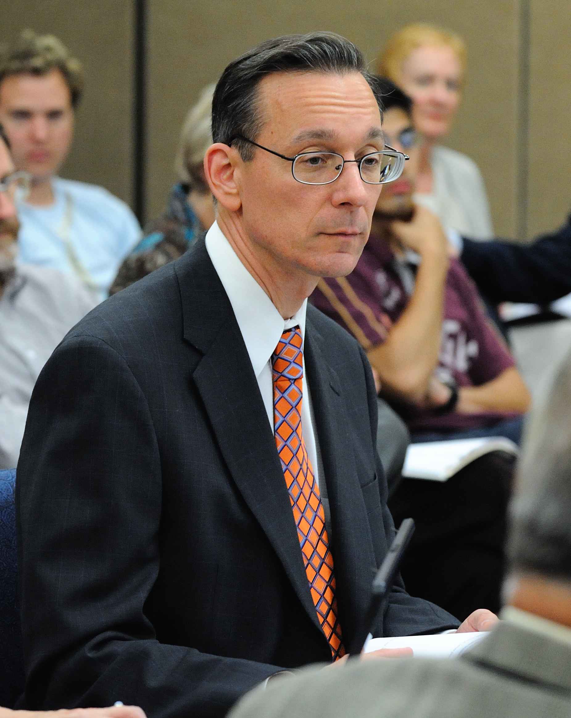 University of Florida Provost Dr. Joe Glover at a September 2008 meeting of the UF Board of Trustees at the Emerson Alumni Hall in Gainesville, Fla.